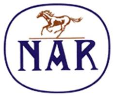 Logo of National Association of Racing (NAR)